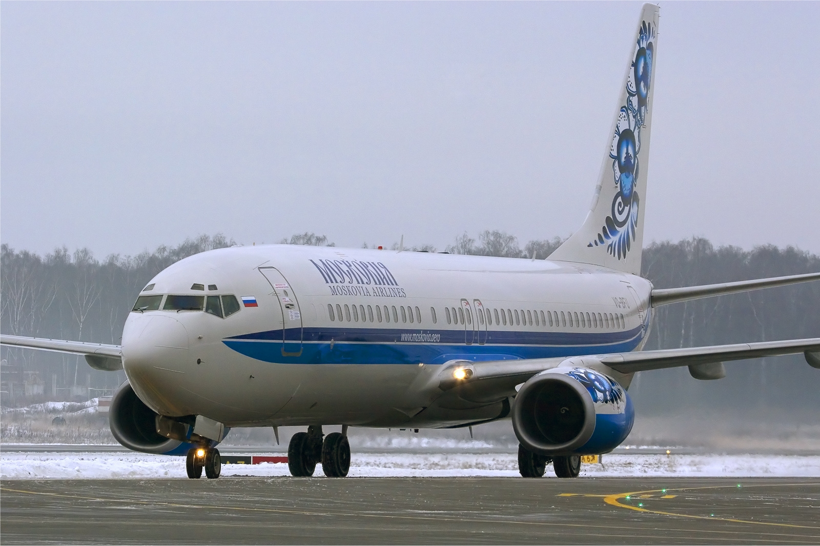 Boeing 737-800 of Moskovia Airlines